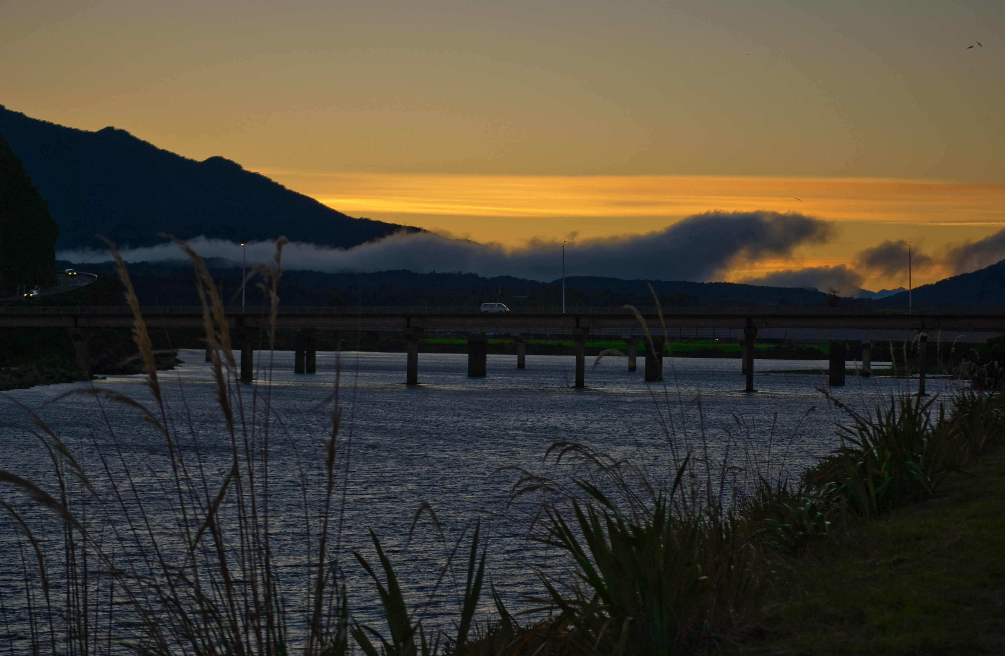 Cobden Bridge across the Grey River on the West Coast of New Zealand.